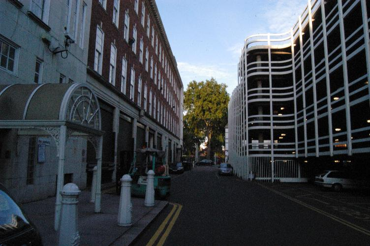 photo by Matt Hucke, August 2006.